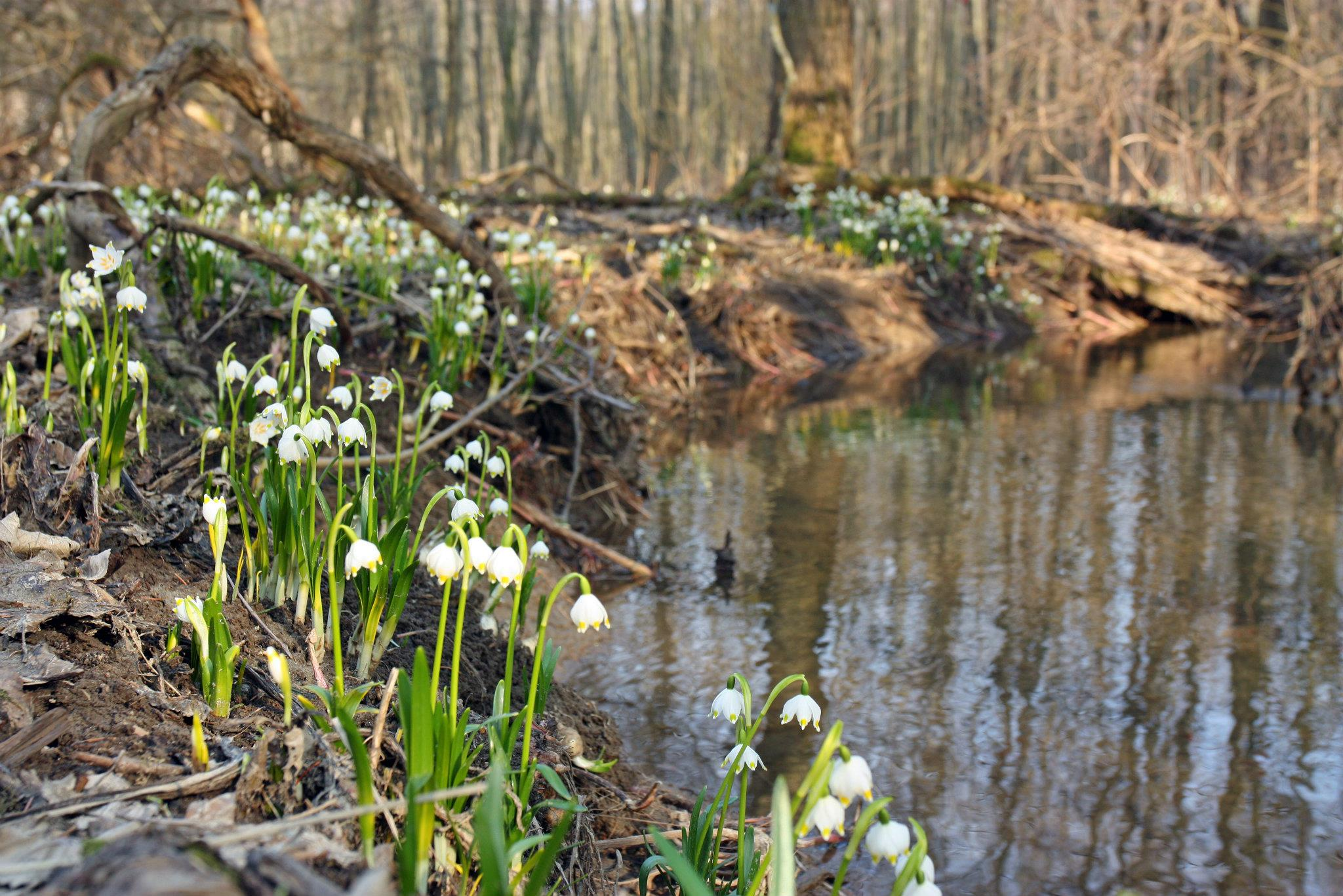 Rozkvetlé bledule u Nyklovického potoka a meandr